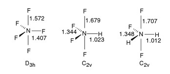 Nitrogen pentafluoride possible structures